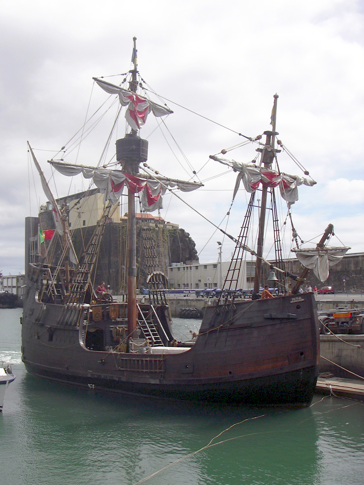 A replica of the Santa María, Columbus’ flagship in 1492 seen in the harbour of Funchal, Madeira.